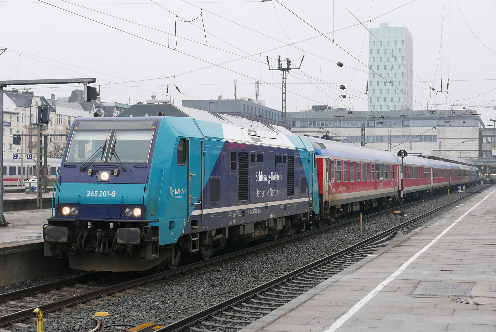 DB 245 201-9 at Hamburg-Altona railway station.